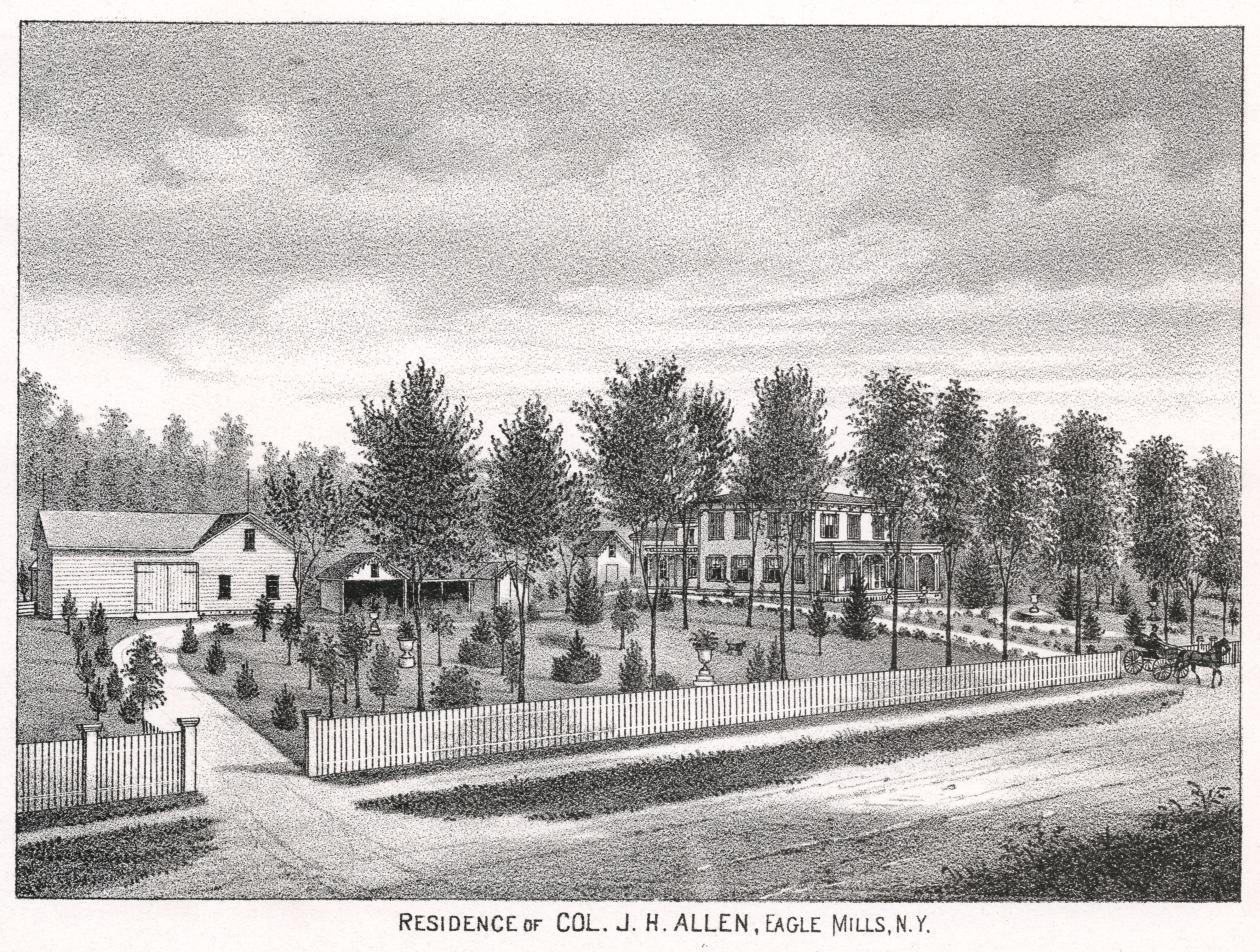 House of Joseph H. Allen in the hamlet of Eagle Mills in the town of Brunswick, New York, United States. As of March 2011, the house on the right is still standing on New York State Route 2 (Brunswick Road).